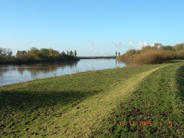 Asselby Island and confluence of Rivers Aire and Ouse, west of Boothferry, East Riding of Yorkshire, England.This picture shows the confluence of the rivers Aire and Ouse. Asselby island (to the right) is only an island on a very high tide - however the main channel of the Ouse has changed course in the past century - in the early part of the last century, the channel was at the other side of the island. The power station visible in the background is Eggborough - the plume from Drax is visible emerging over Asselby island in the right of the photo.